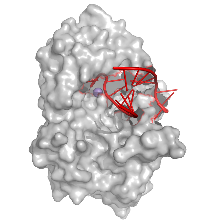 3D structure of a PIWI protein from Archaeoglobus fulgidus (grey) in complex with a siRNA duplex (red). Structure rendered with PyMol 0.99 based on crystal structure data form PDB 2BGG. Parker JS, Roe SM, Barford D (March 2005). "Structural insights into mRNA recognition from a PIWI domain-siRNA guide complex". Nature 434 (7033): 663–6. PMID 15800628. PMC: 2938470.